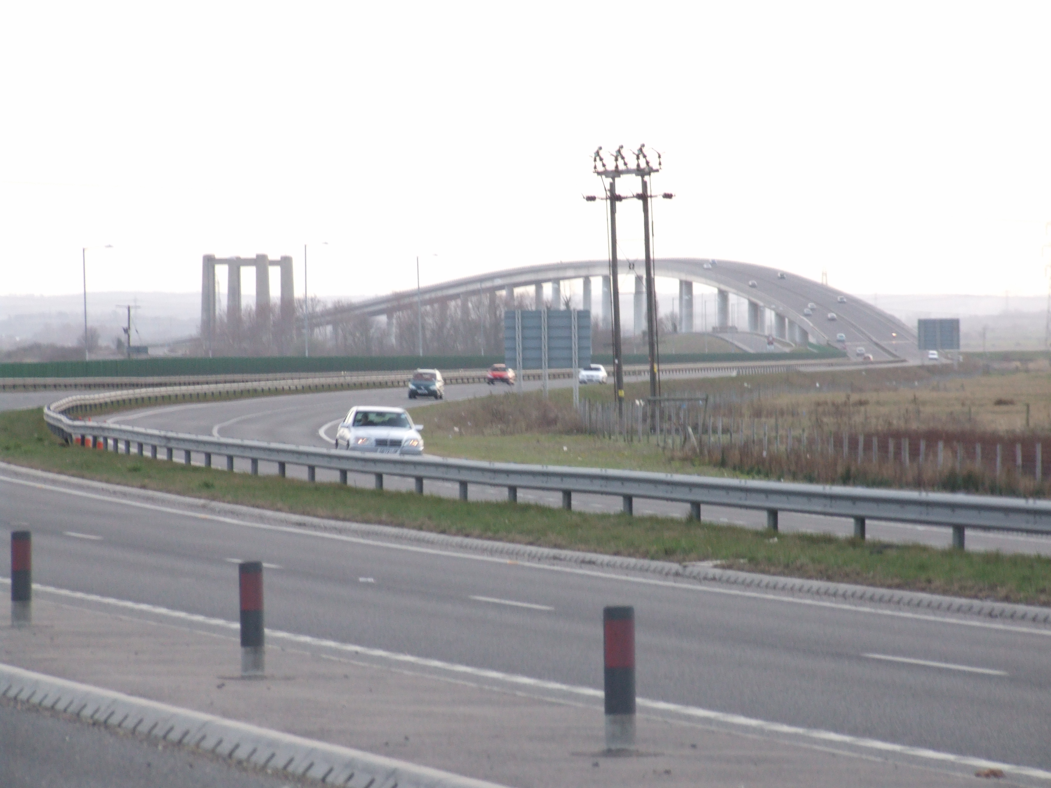 Isle of Sheppey Kent. The Sheppey Crossing and the Kingsferry Bridge between Sheppey and the mainland of Kent.